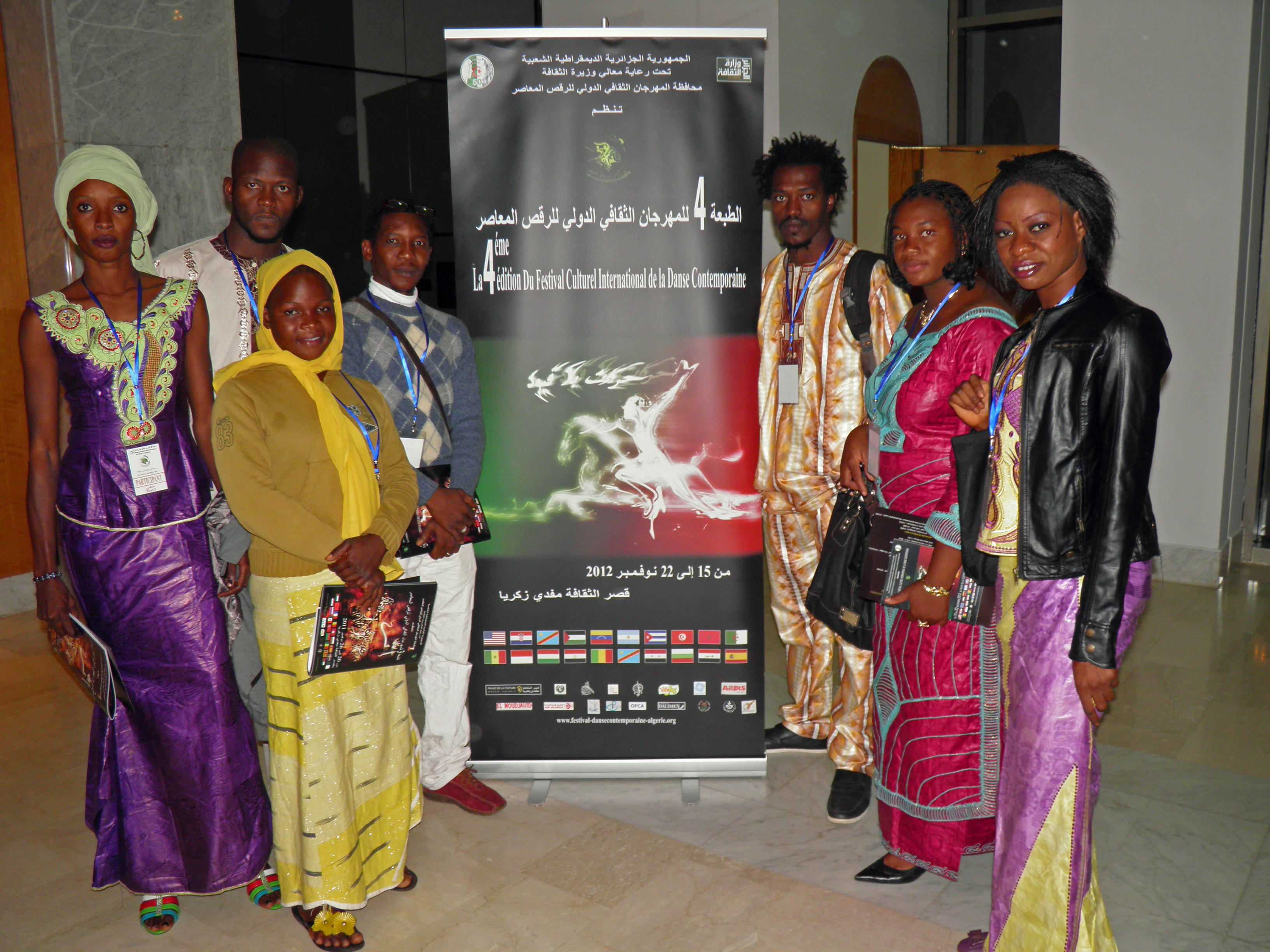 An Algiers festival performance by the "Mali Debout Danse" troupe surprised fans. أداء فرقة "أنهضي أرقصي يامالي" في مهرجان العاصمة الجزائرية فاجأ الجمهور. A performance by the dancers of the troupe "Mali Standing Dance" surprised fans at a festival in Algiers.